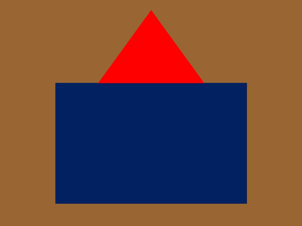 The distinguishing patch of the 25th Battalion (Nova Scotia Rifles) CEF.